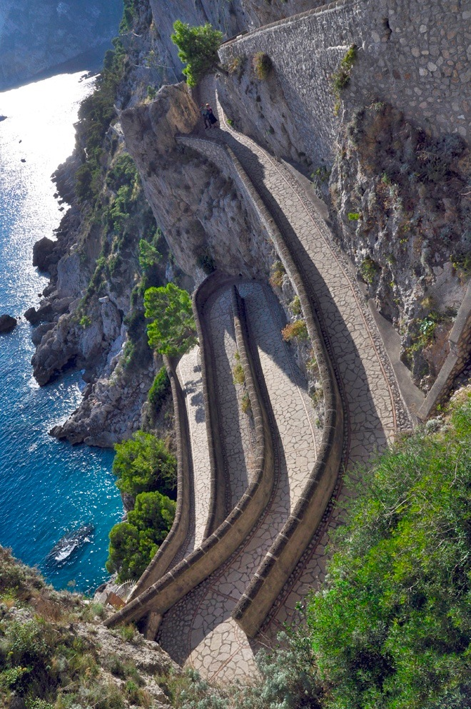 Via Krupp in Capri - Italy